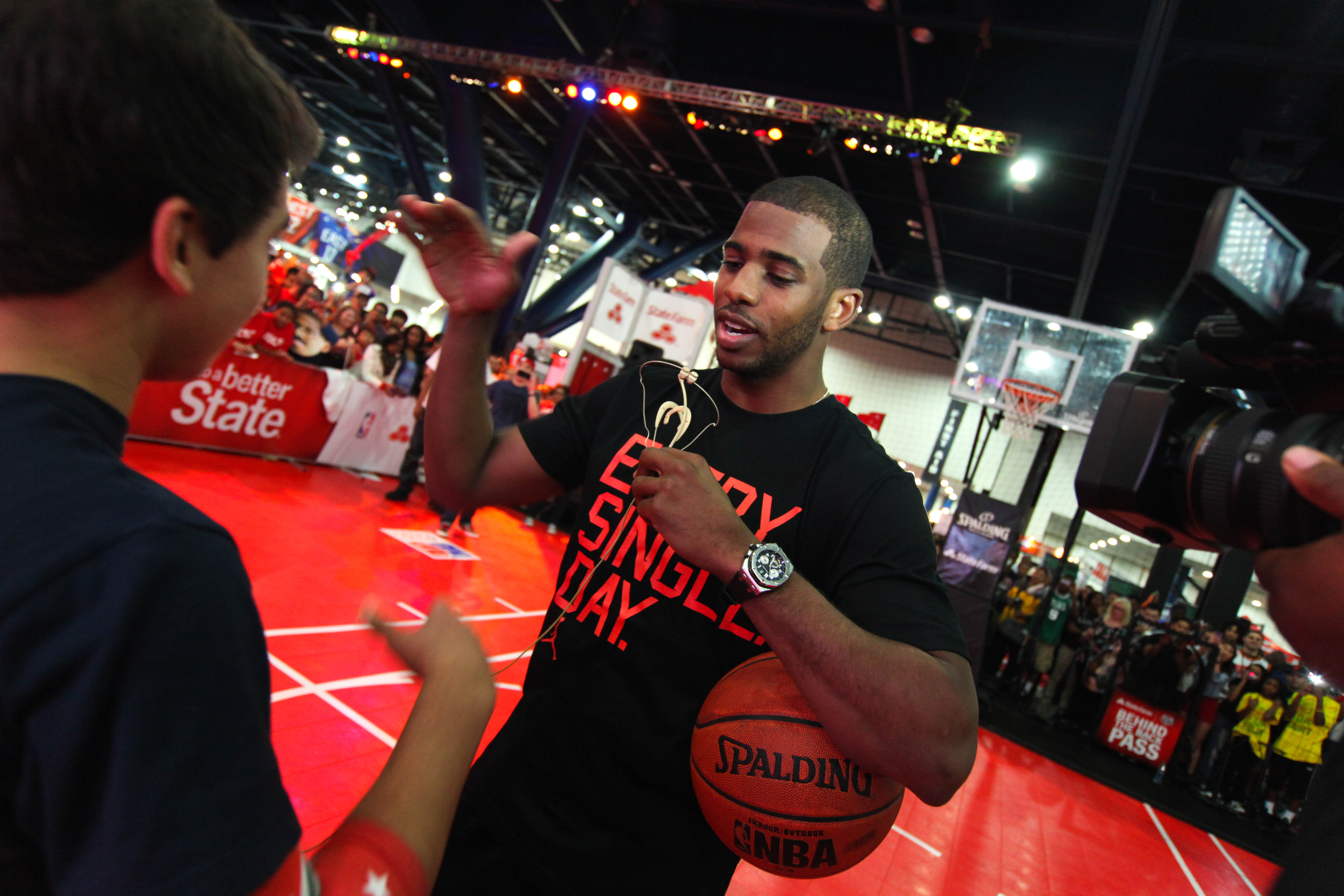 Chris Paul congratulates a fan who had the chance to go one-on-one with him at the State Farm court during the NBA All-Star weekend Jam Session.